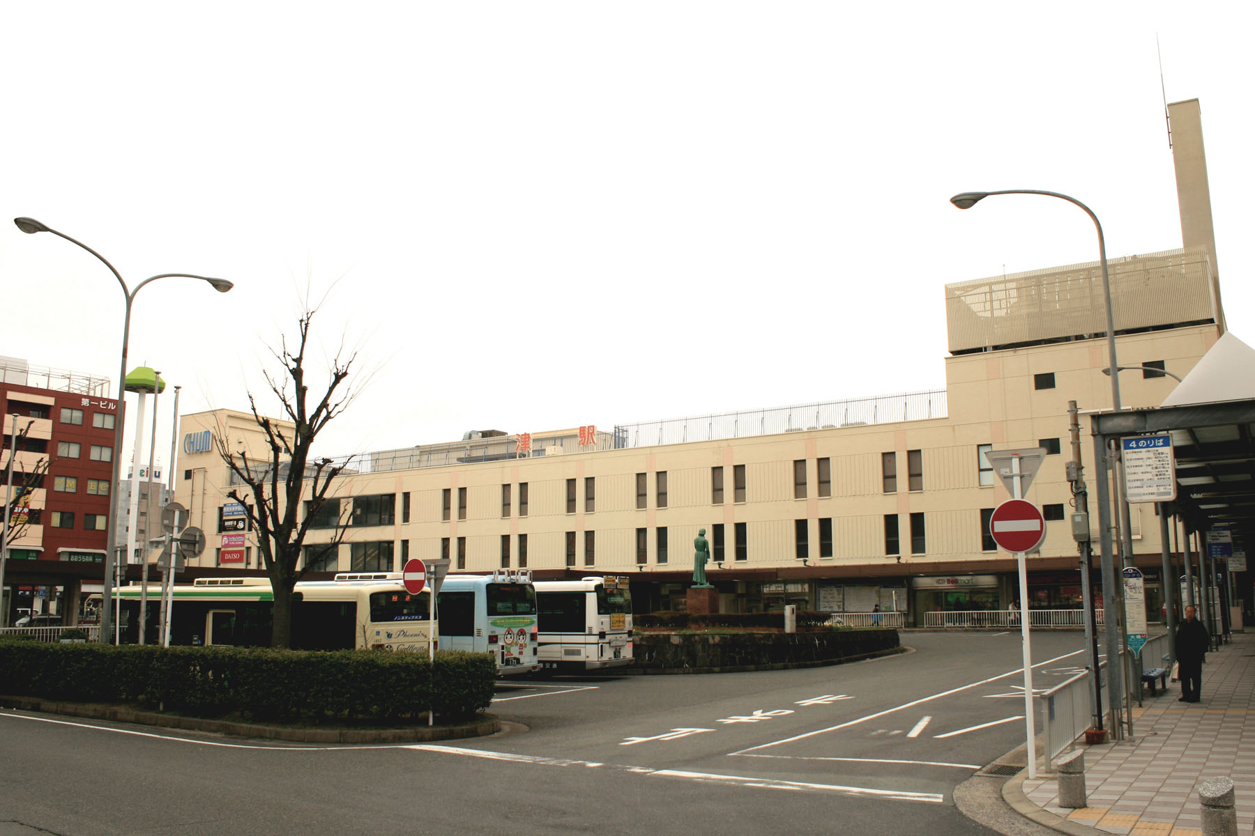 Mie pref. "CAPITAL" station